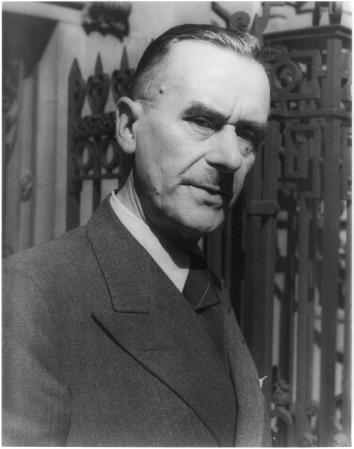 Thomas Mann, 20 April 1937